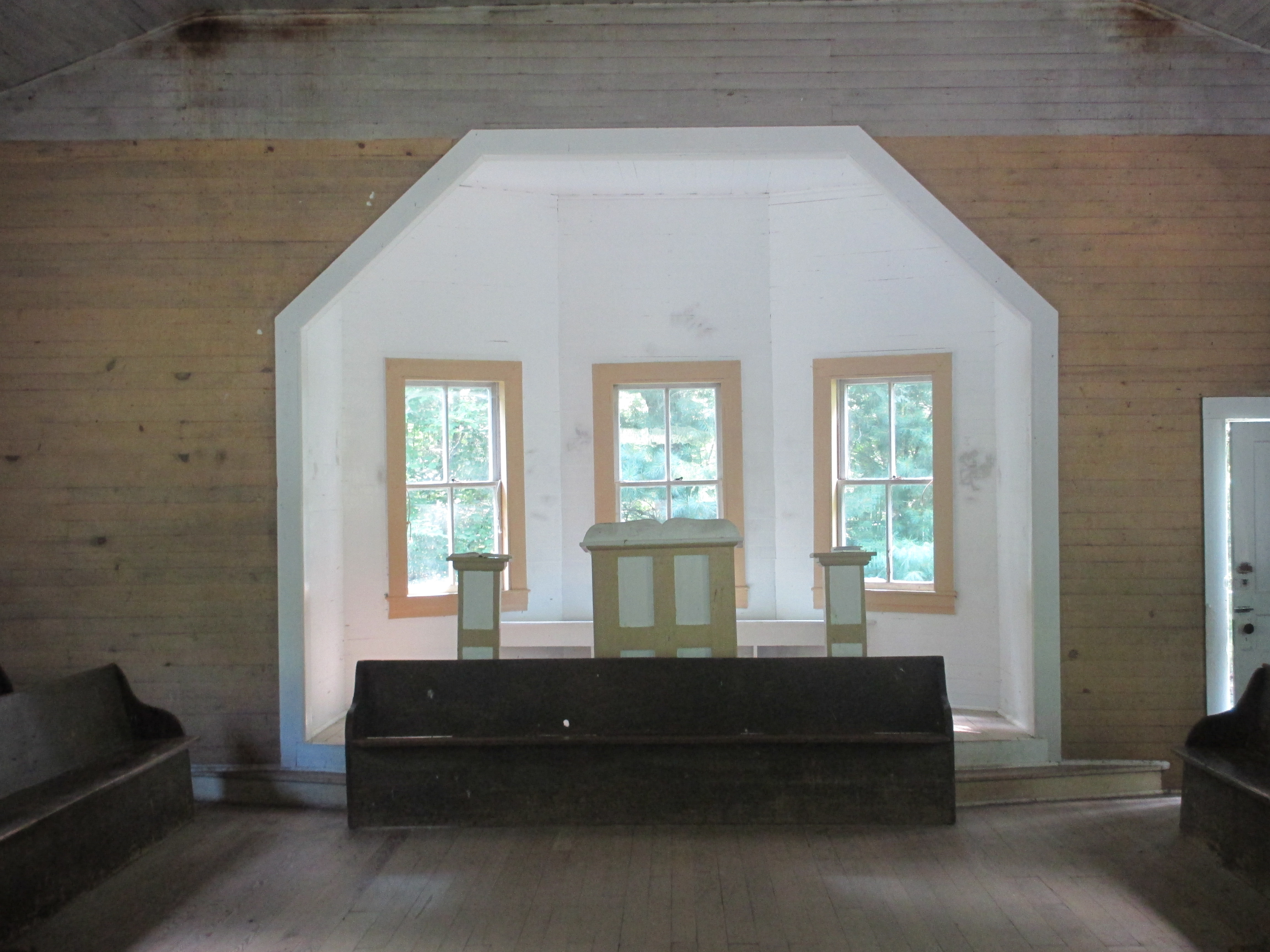 I took photo of Missionary Baptist Church in Cades Cove, with Canon camera.